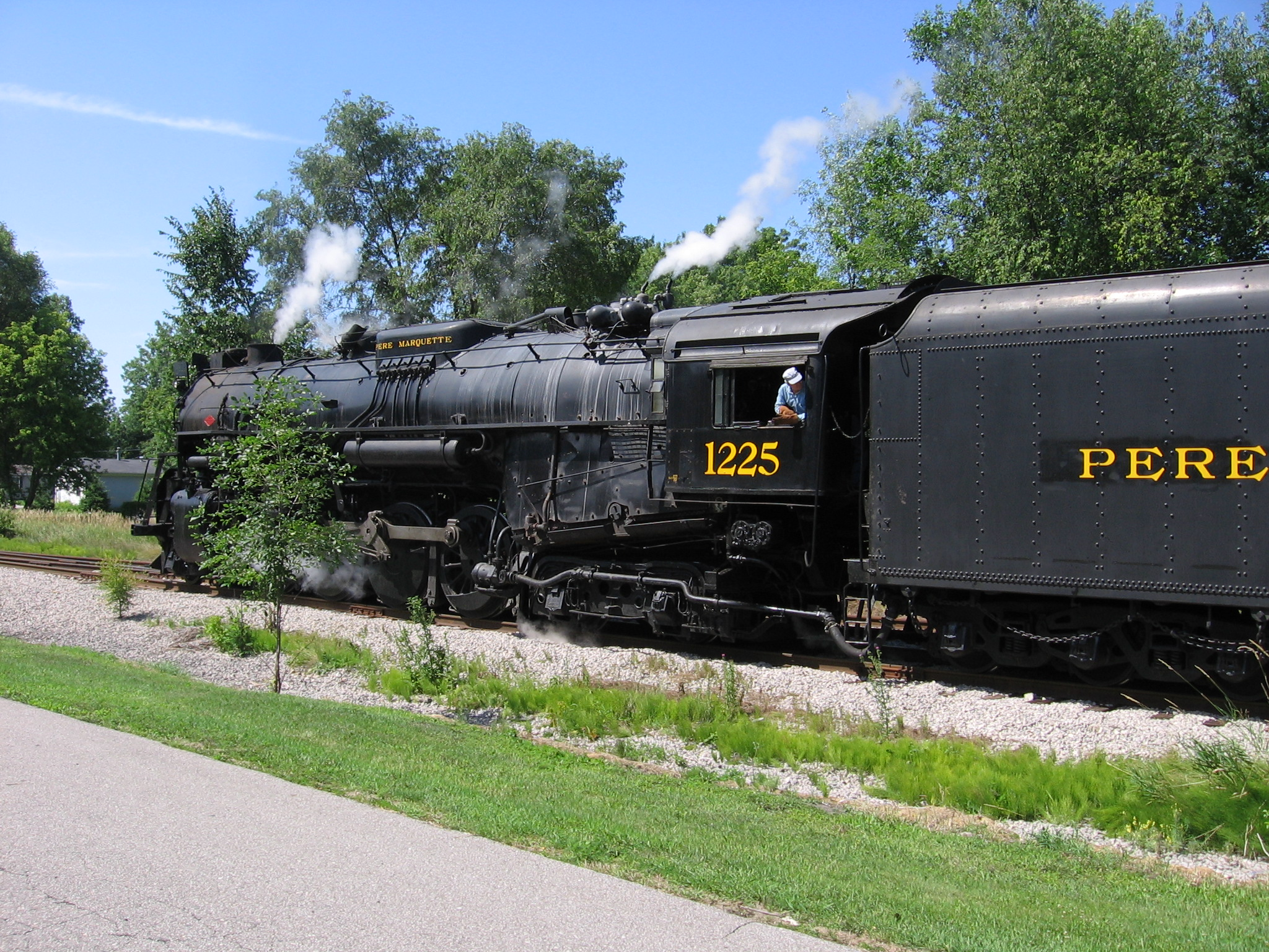 Pere Marquette Locomotive passes through Alma.